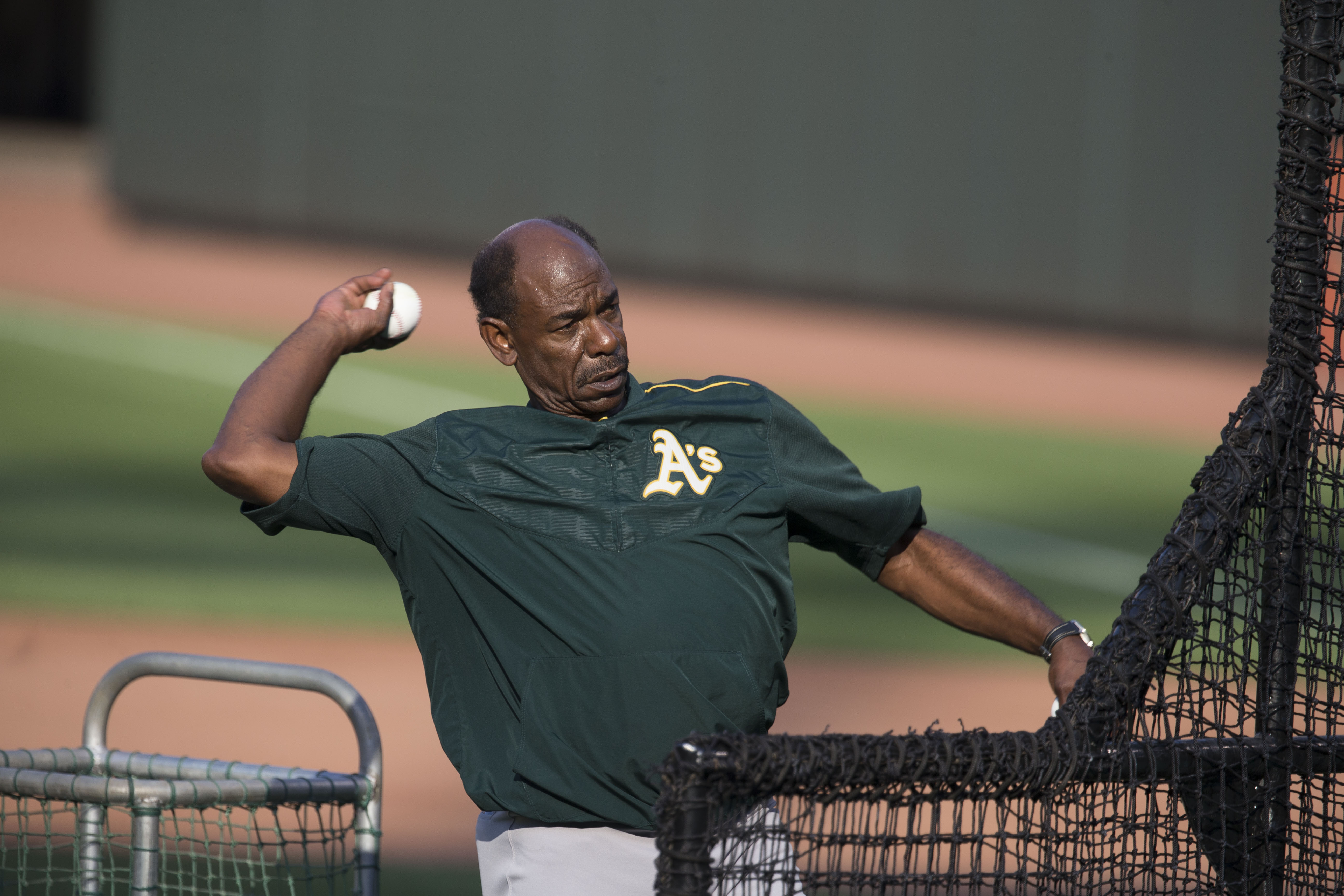 Ron Washington